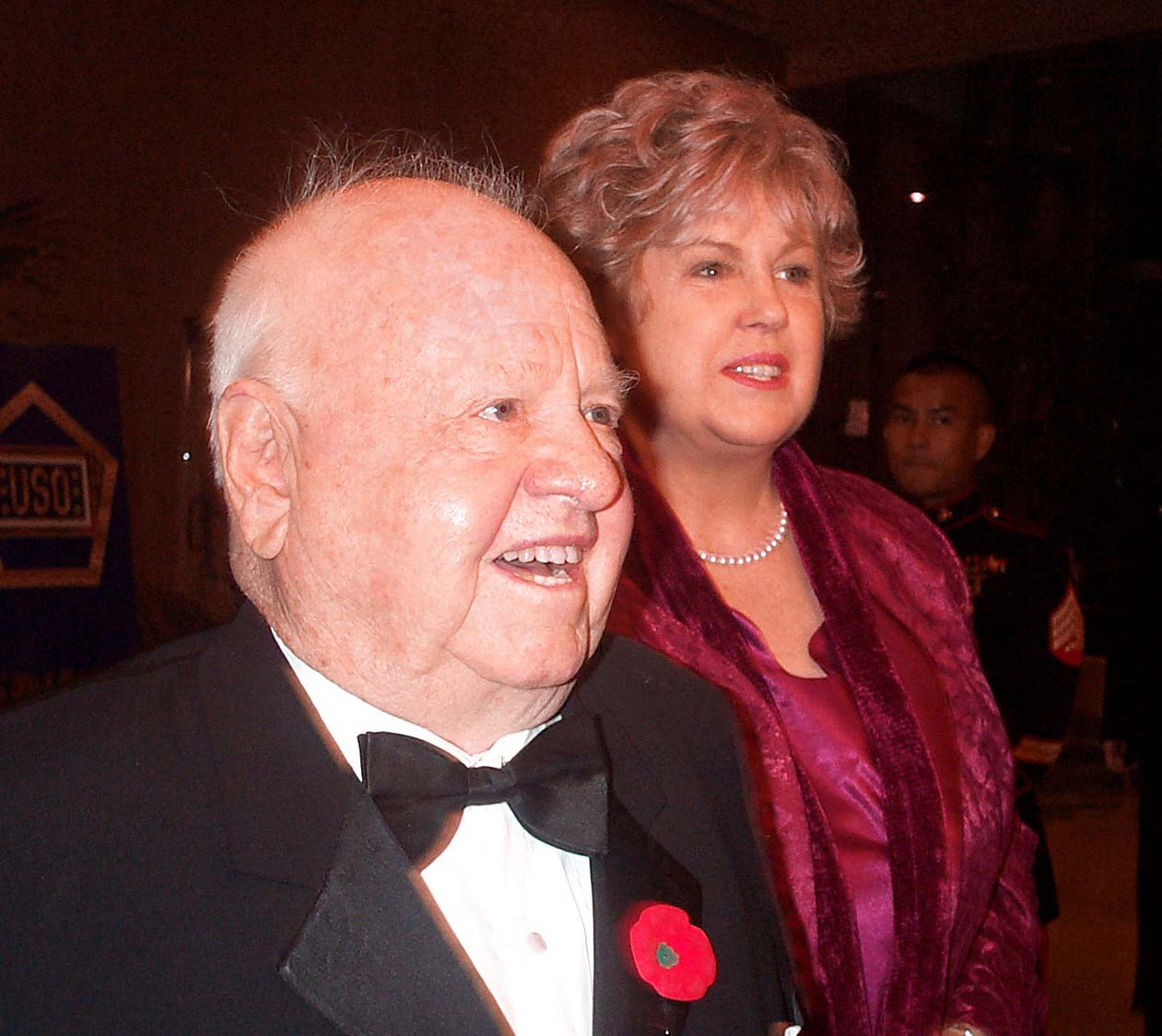 Actor comedian Mickey Rooney, 80, and his wife, Jan, arrive with at a military concert in Beverly Hills, California. DoD and the USO hosted the November 30th concert to honor the Hollywood film industry. Starting in vaudeville at age 15 months and shifting to silent movies at age 6, Rooney has been a star and celebrity in Hollywood all his life -- except for the time he served as an Army private during World War II.